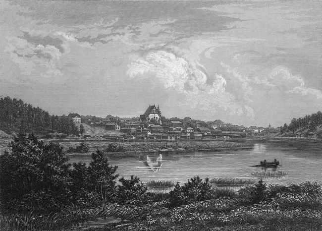 View of Porvoo from North West.